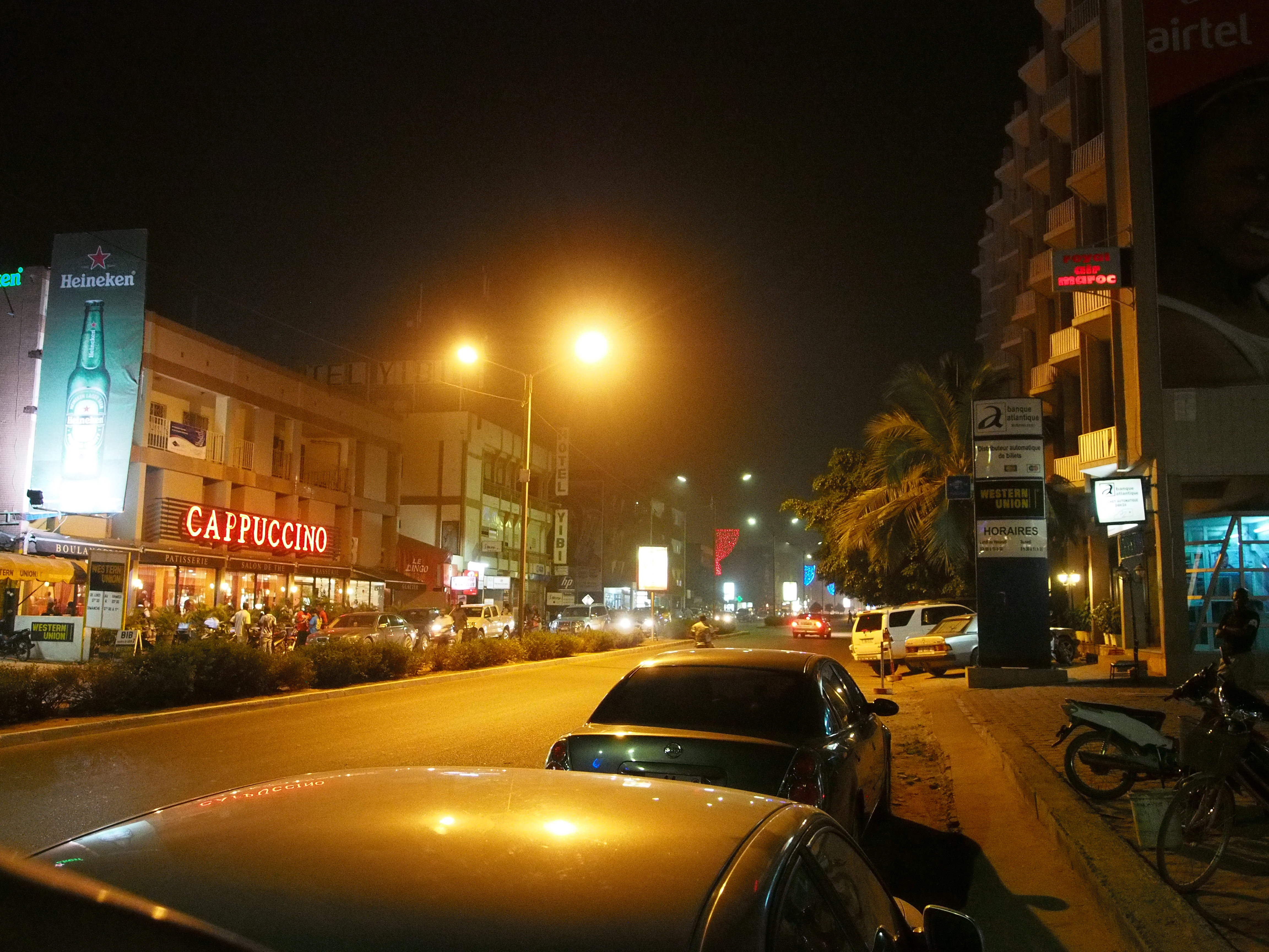 The coffee bar Cappuccino at Avenue Kwamé N'Krumah, Ouagadougou (Burkina Faso)